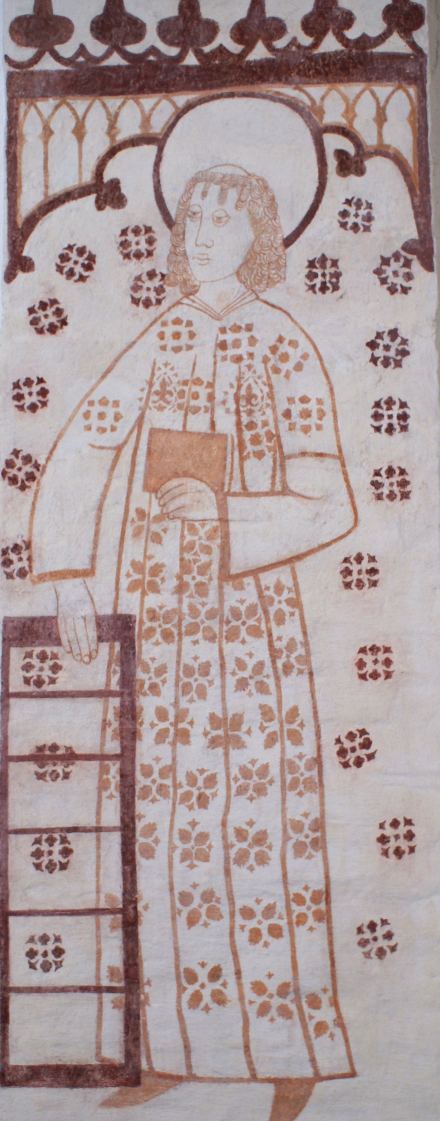 Hald Church, Denmark:Fresco, Saint Lawrence